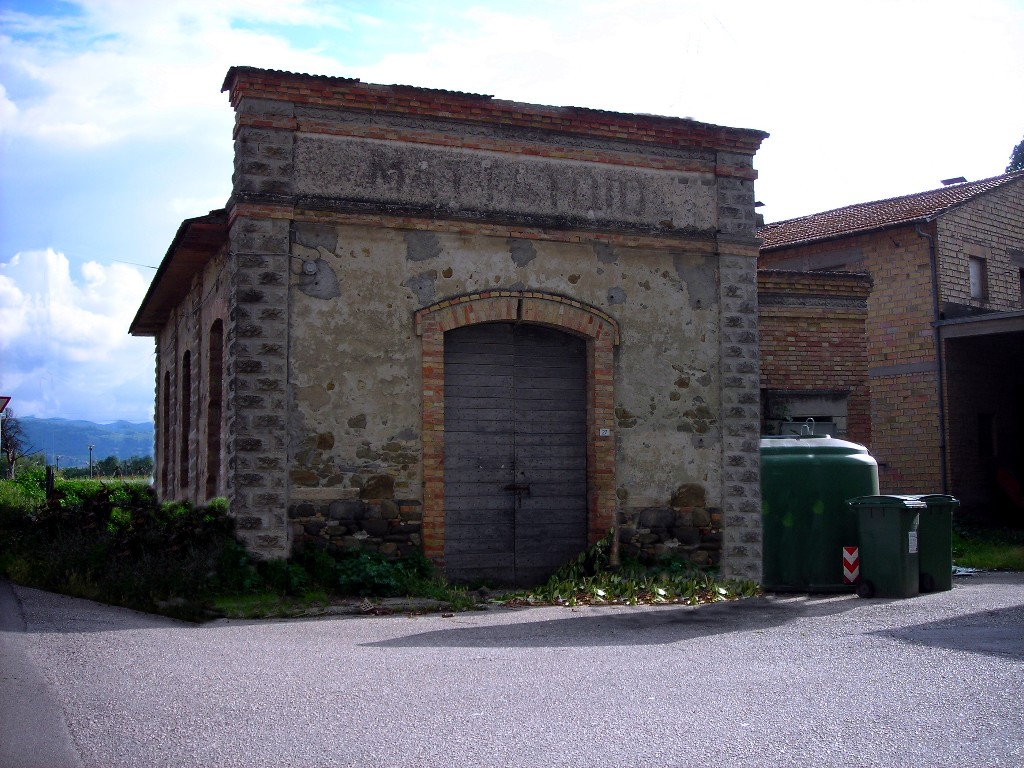 Ancient slaughterhouse, Costano, Bastia Umbra, Perugia, Umbria, Italy